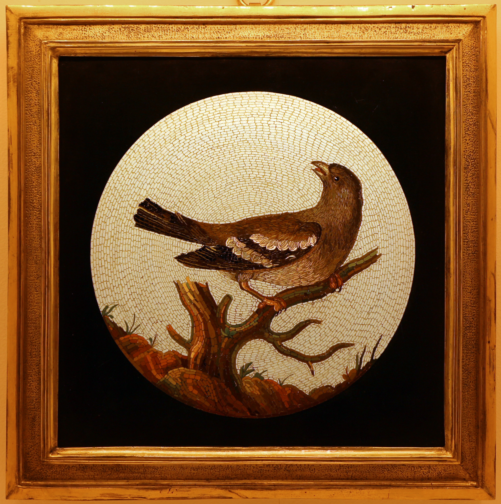 Courtesy of Alberto di Castro, Piazza di Spagna, Rome (n. 181)